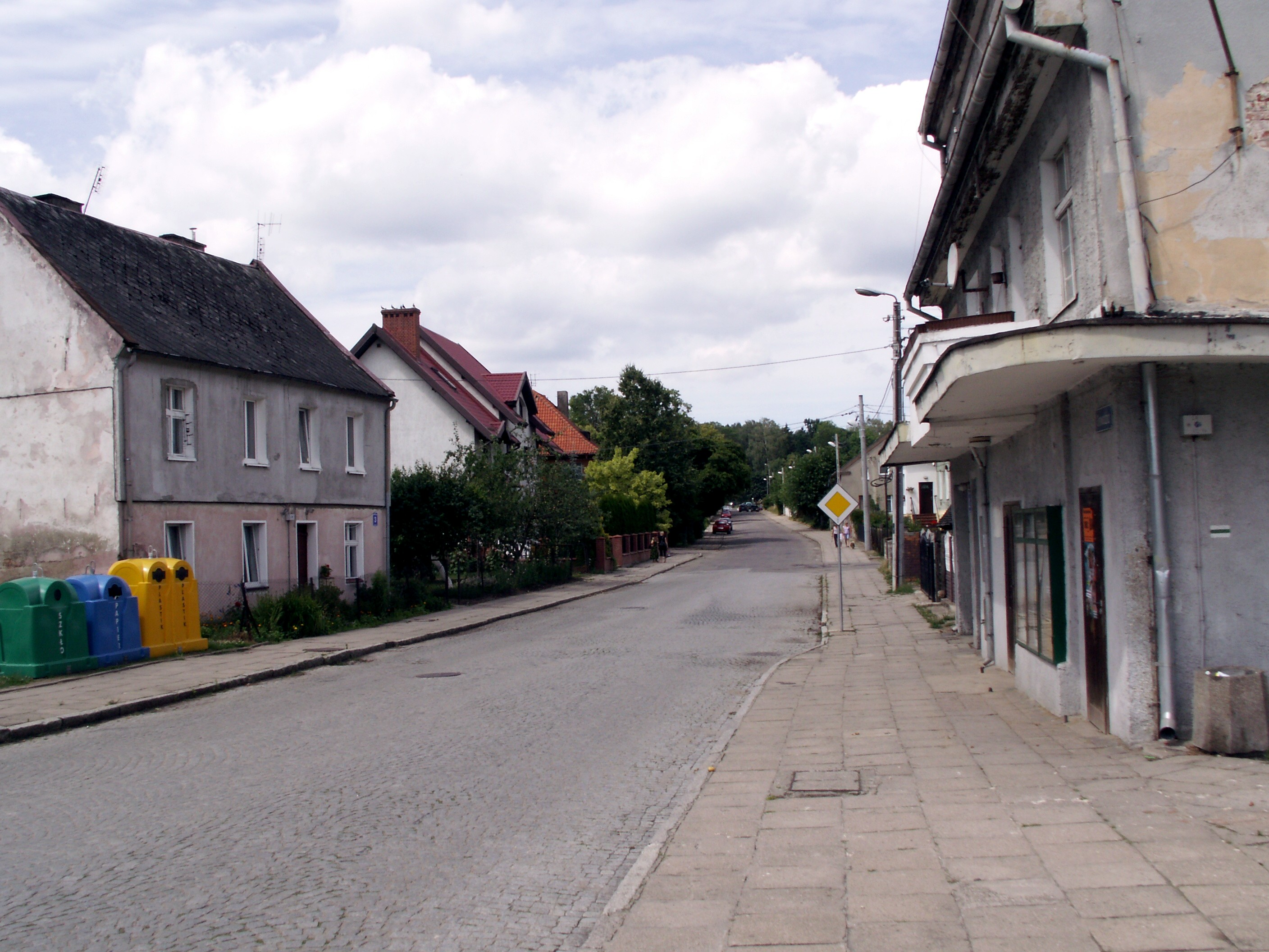 Olsztynek